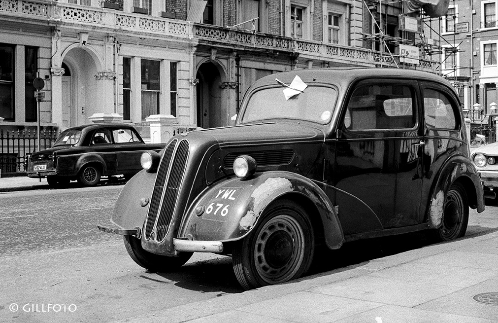 Ford Poplar London